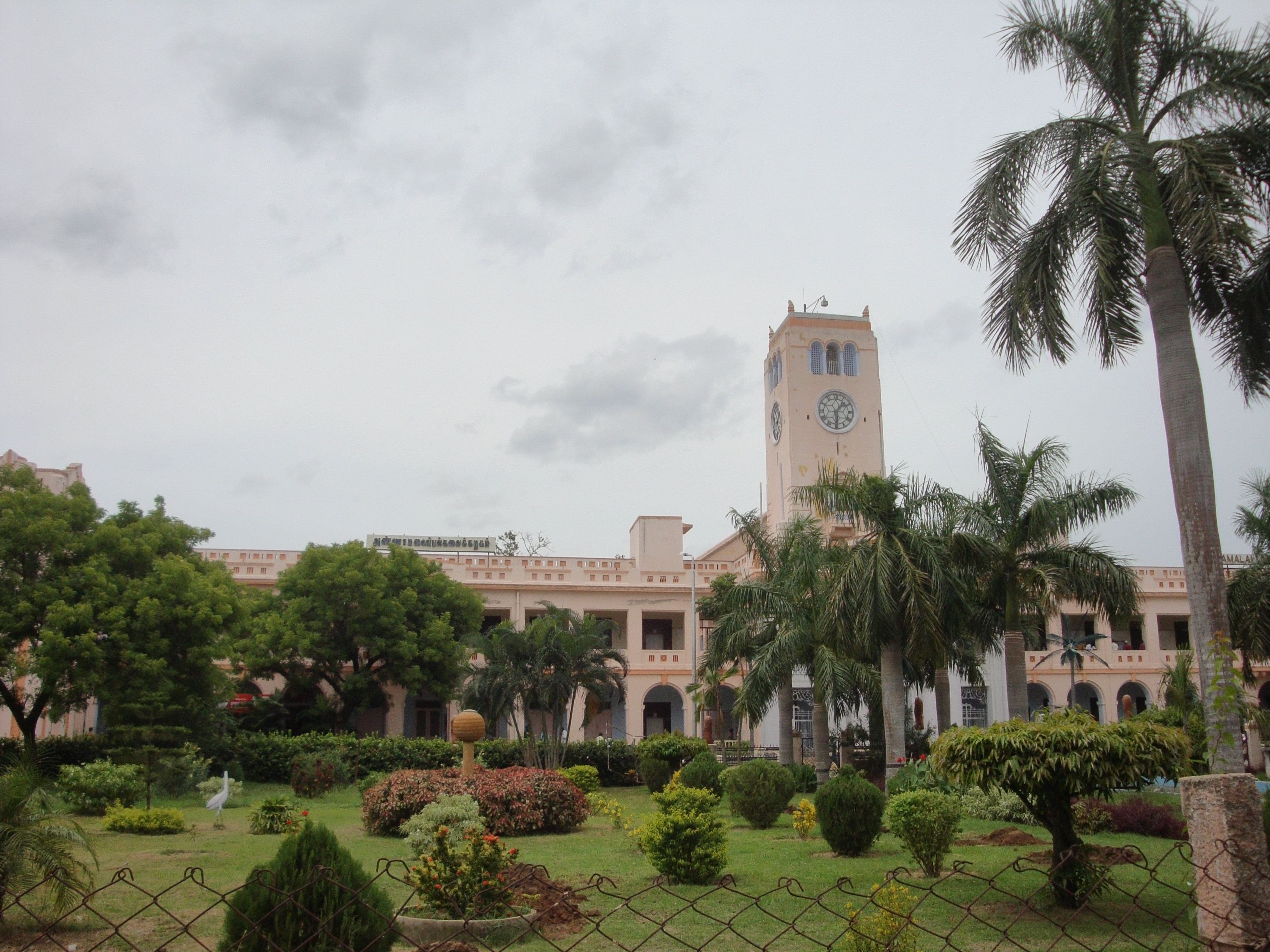 A View of the Administrative Building(Admin), Annamalai University